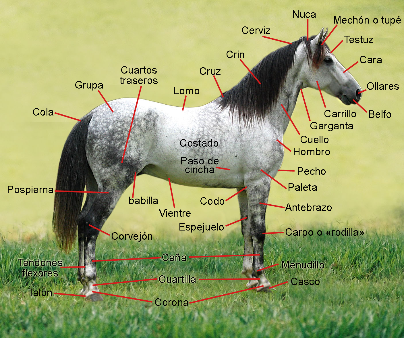 External parts of the horse body in Spanish.